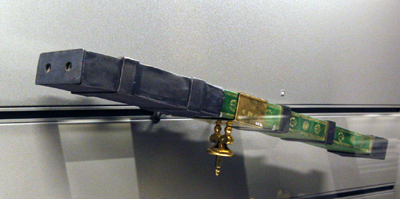 Binoculars, by Father Chérubin d'Orléans, 1681, Musée des Arts et Métiers, Paris Бинокъл от Отец Шерубин д'Орлеан, 1681г, Музей на изкуствата и занаятите, Париж